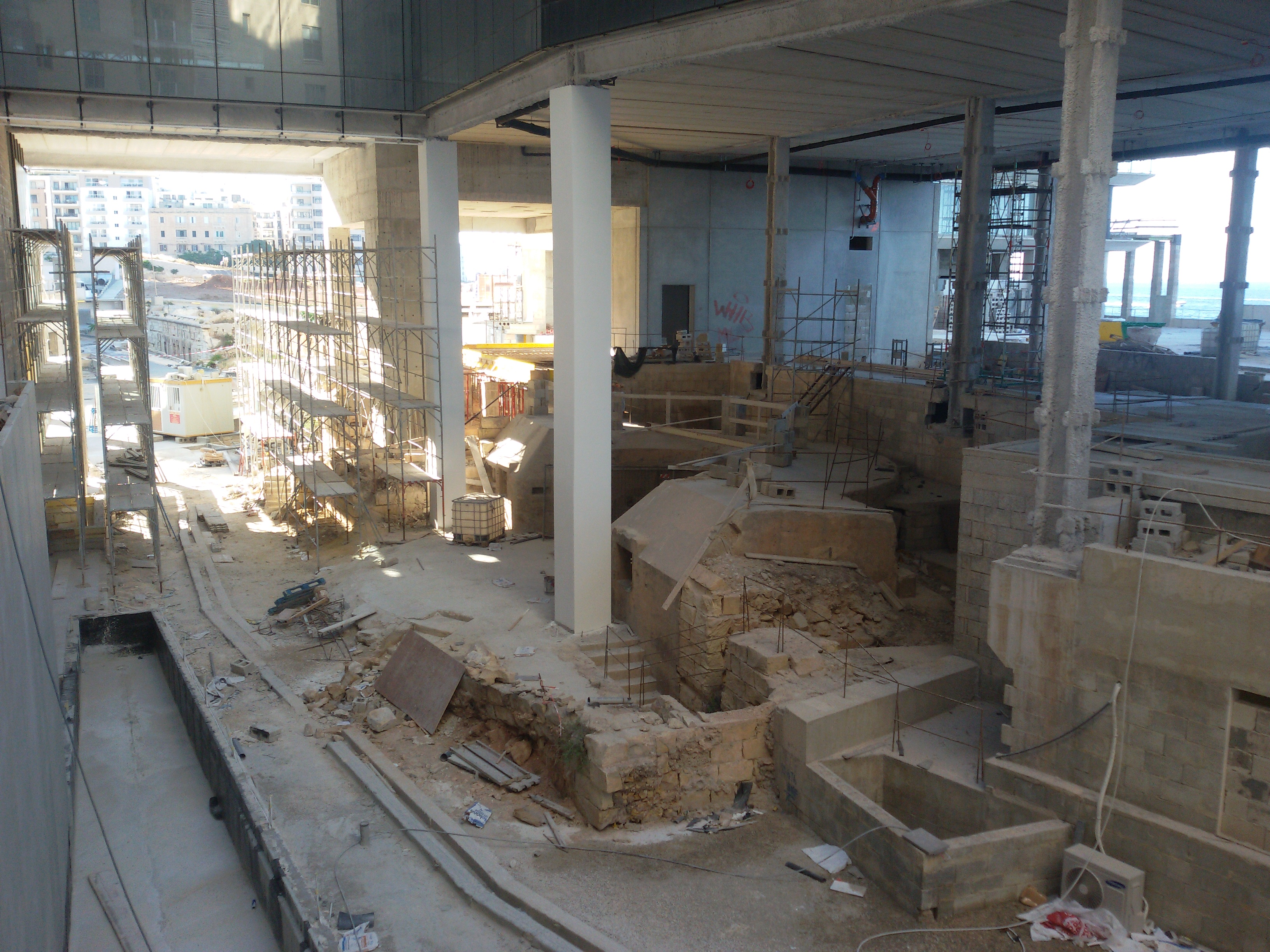 Sliema batteries